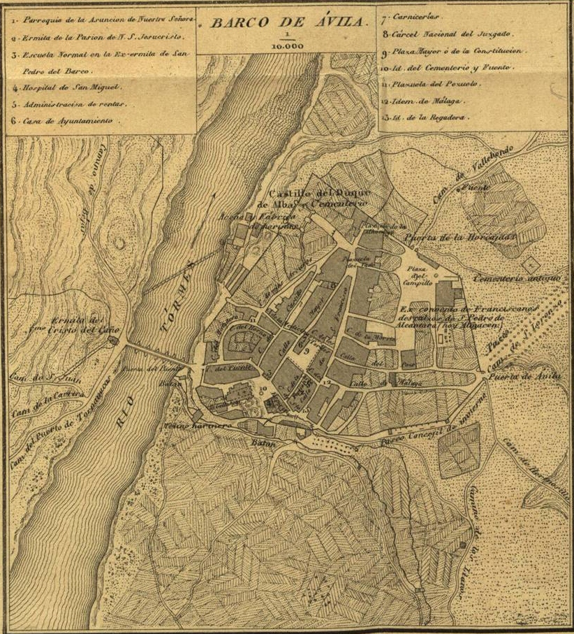 Map of El Barco de Ávila cropped from the 1864 province of Ávila map by Francisco Coello